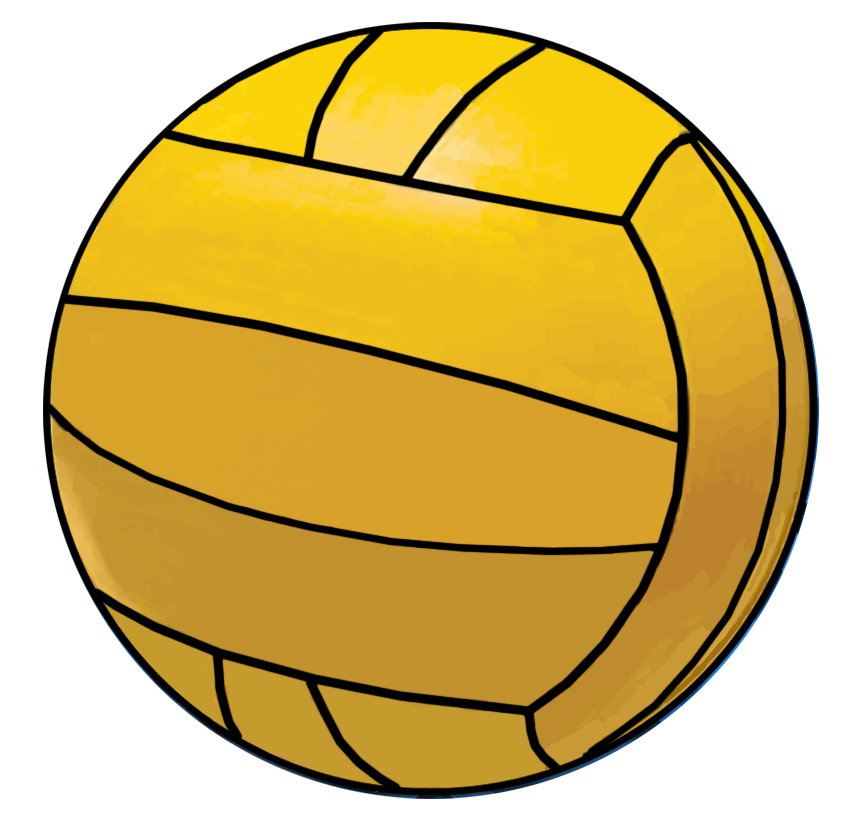 Icon of a water polo ball